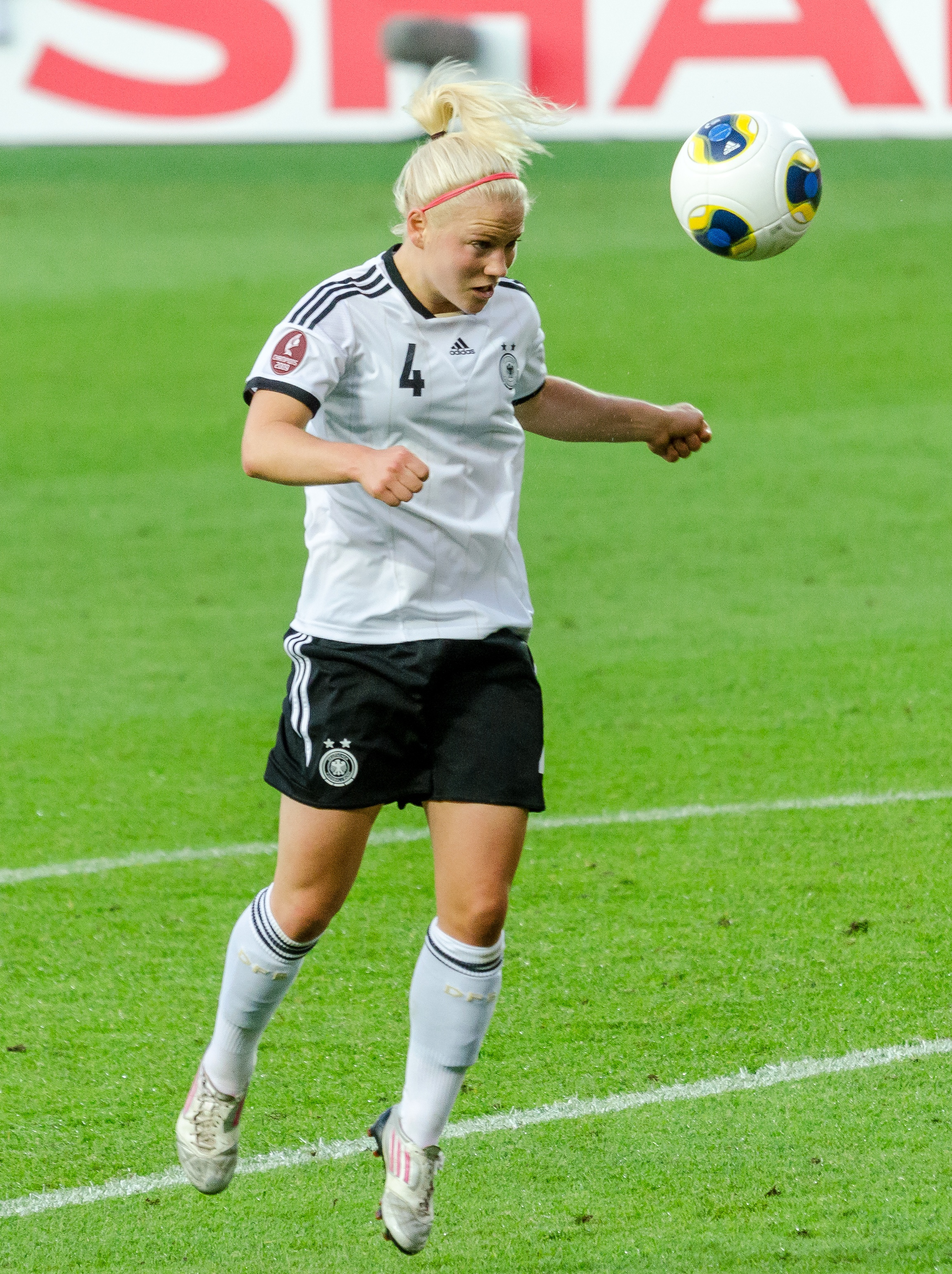 German defender Leonie Maier playing in the German Women's National Team's first game of UEFA Women's Euro 2013, 0-0 against the Netherlands in Växjö.